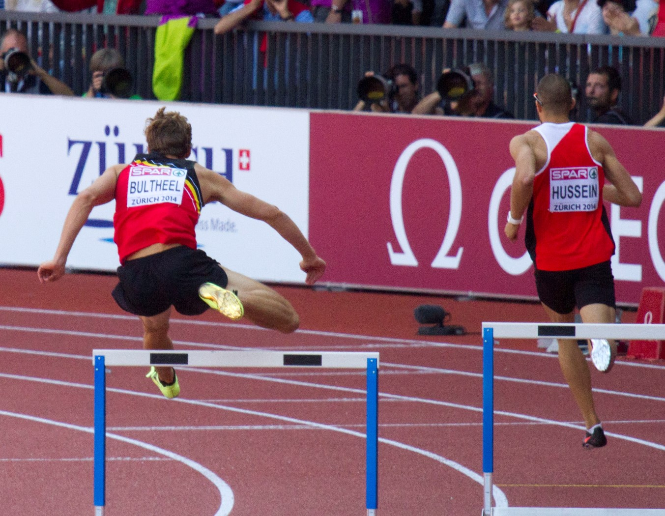 067 michael bultheel 400mH